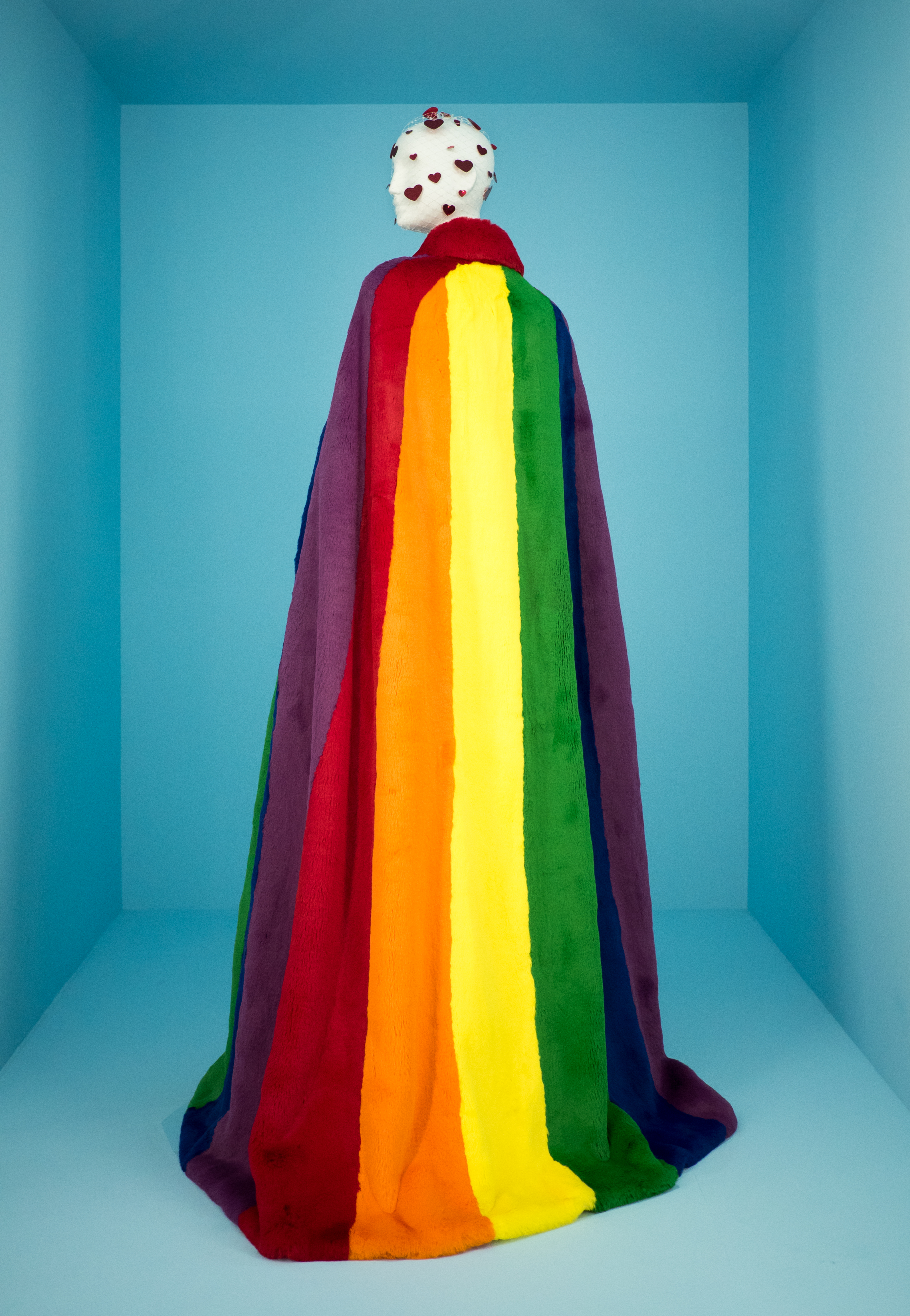 Rainbow cape - Christopher Bailey for Burberry, autumn/winter 2018-2019Camp: Notes on Fashion exhibit at the Met